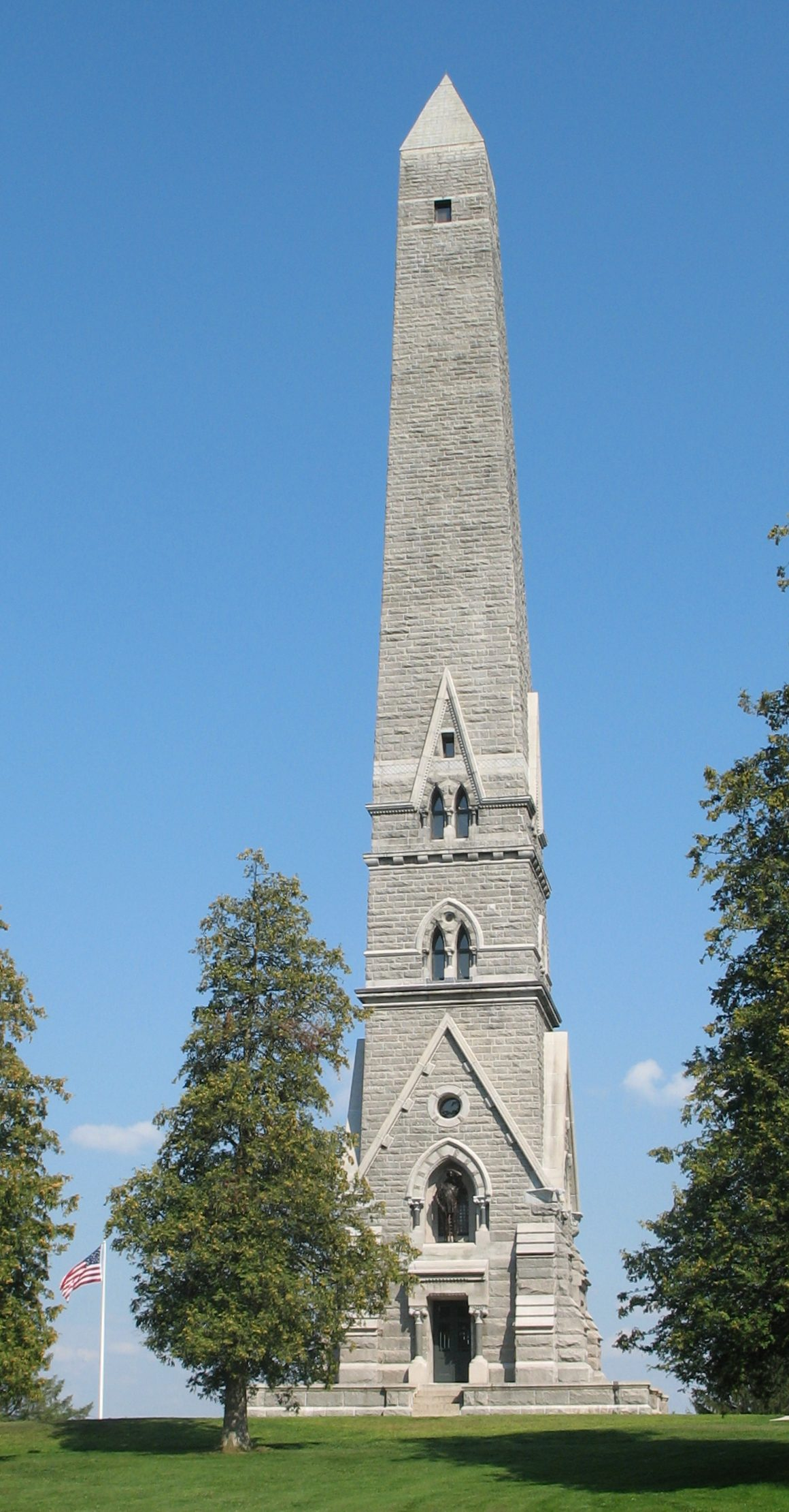 Saratoga Monument in Saratoga National Historical Park at Victory, New York, United States